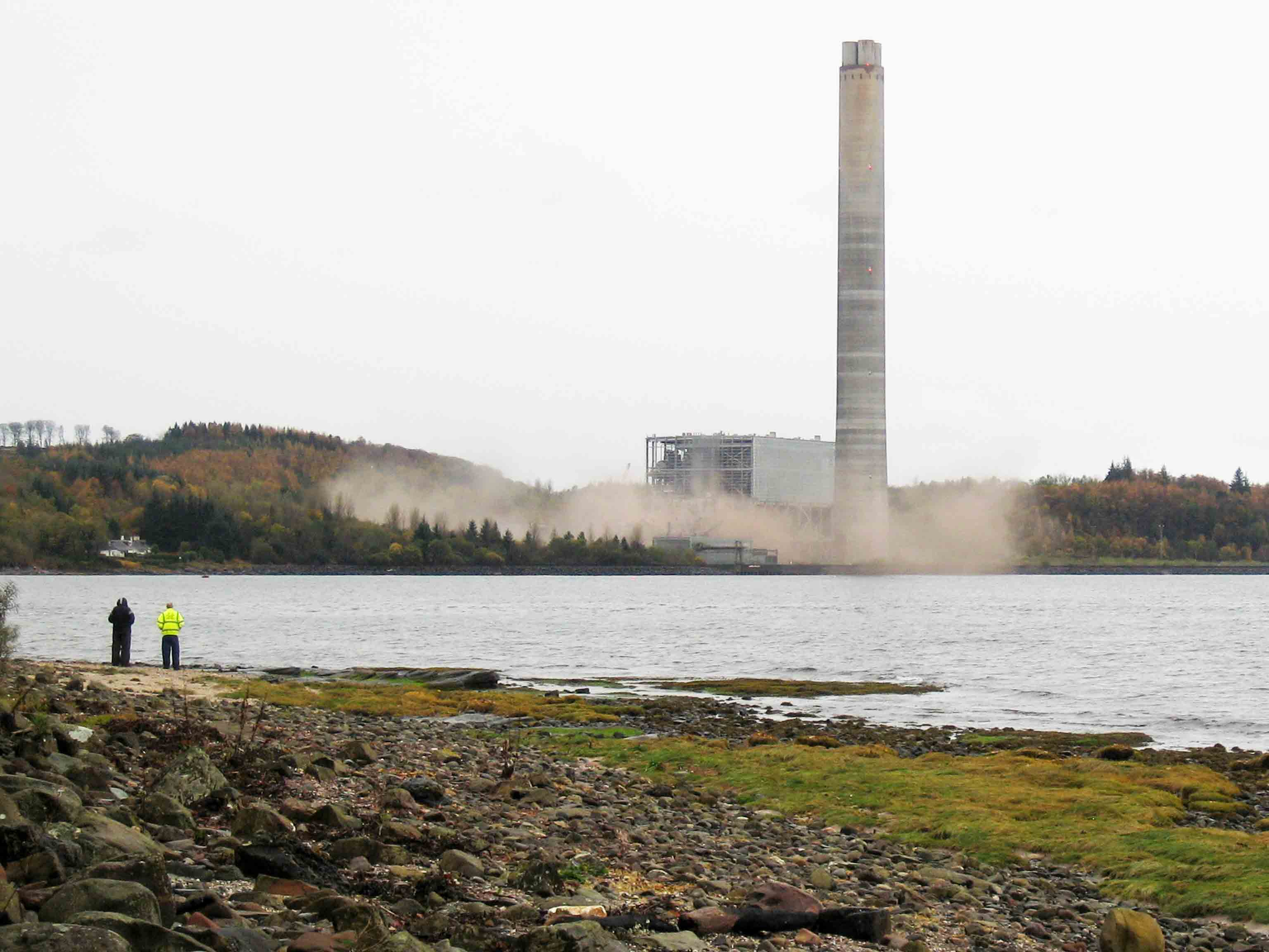 Inverkip power station demolition explosion, blowing up the boiler house. View from near Ardgowan Point.